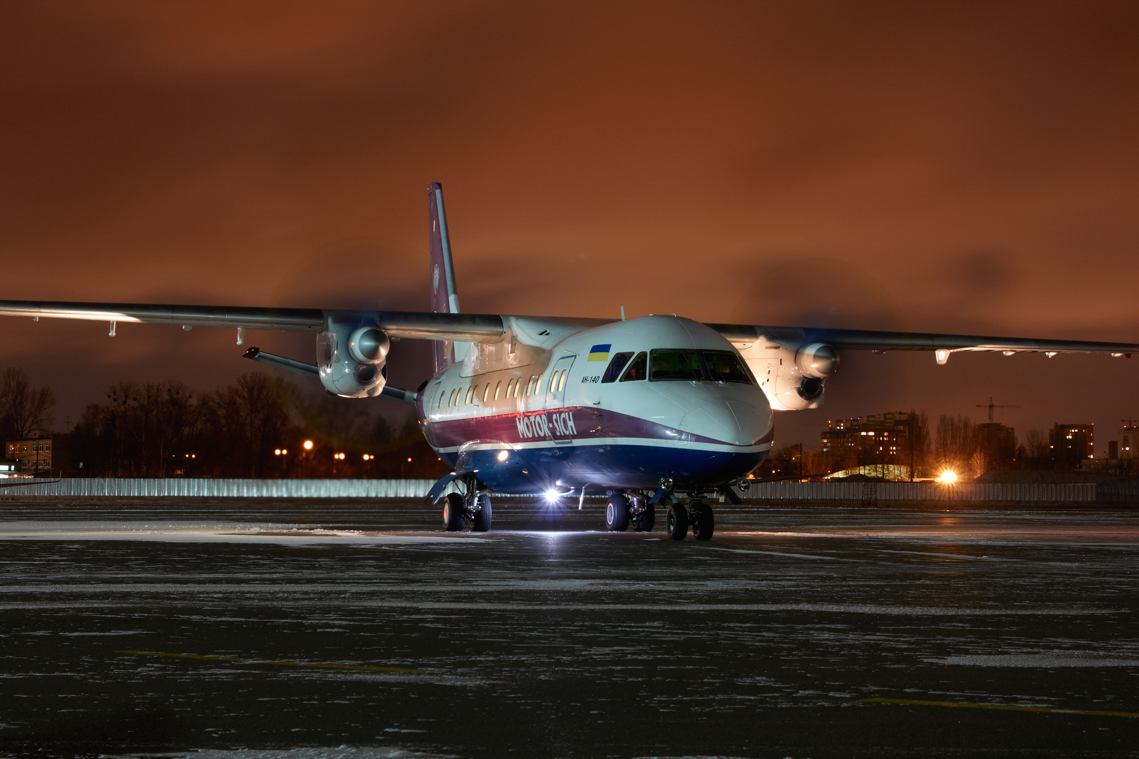 Motor Sich Airlines Antonov An-140 at Zhulyany Airport